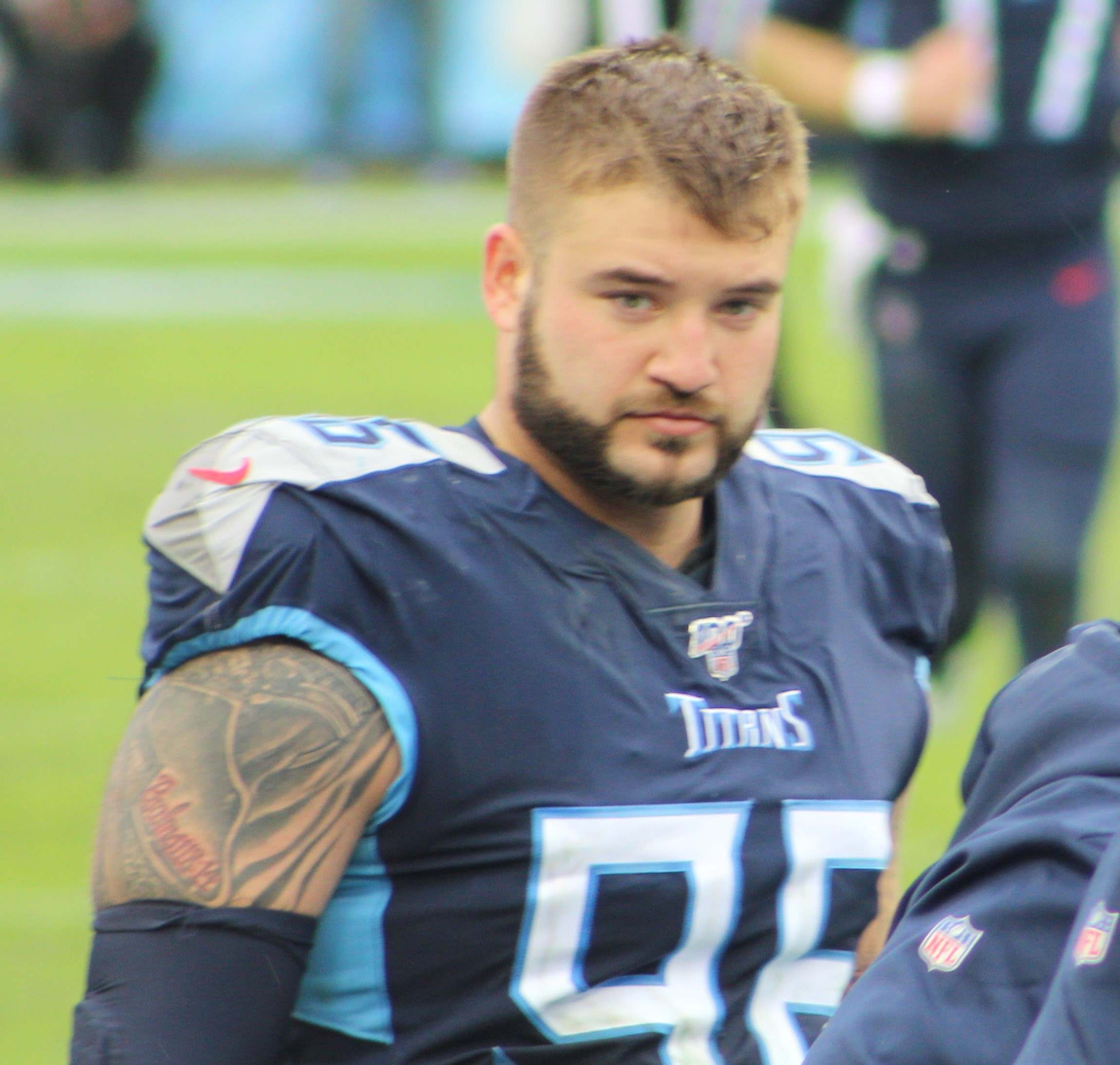 Ivie with the Titans on December 22, 2019